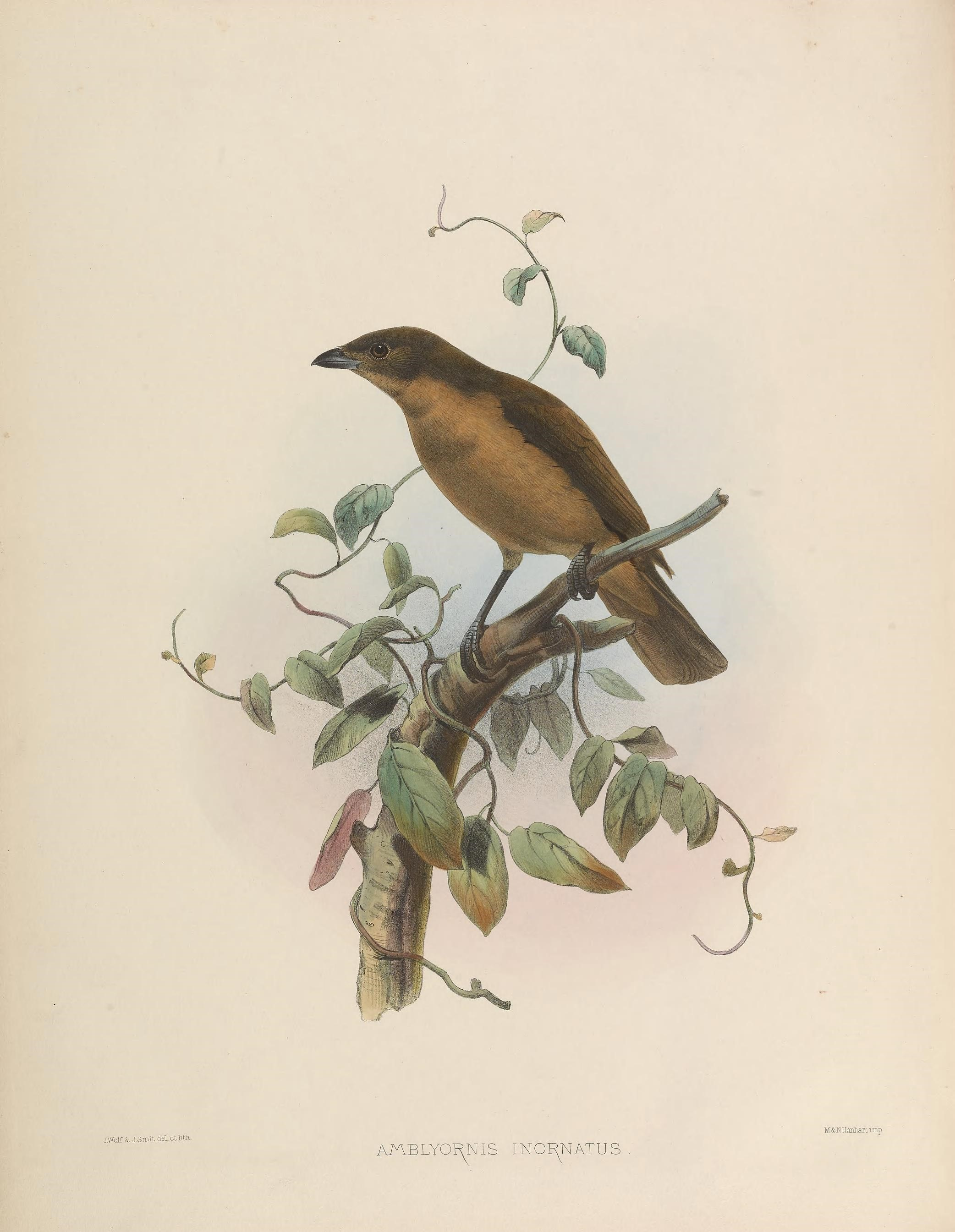 Drawing of 1873